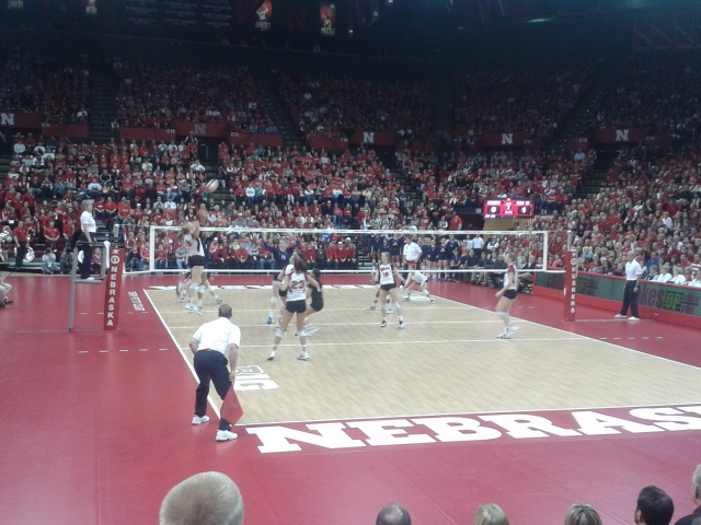 Nebraska playing Penn St at the Bob Devaney Sports Center in 2013